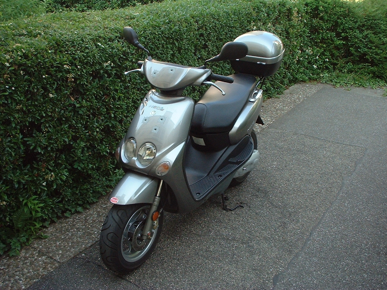 Yamaha Neo's 50 with Topcase